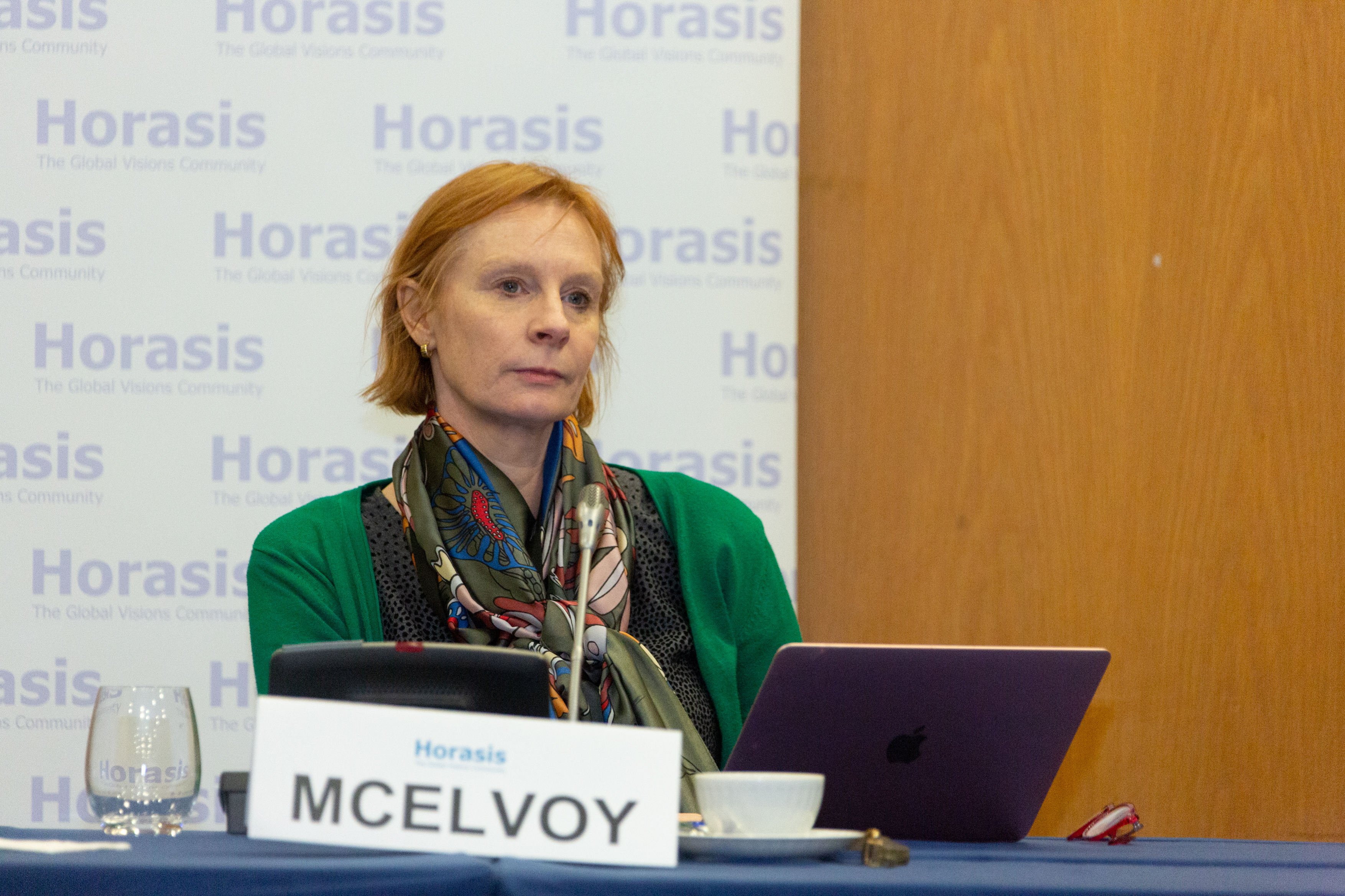 Anne McElvoy, Policy Editor, The Economist, chairing a panel on Europe